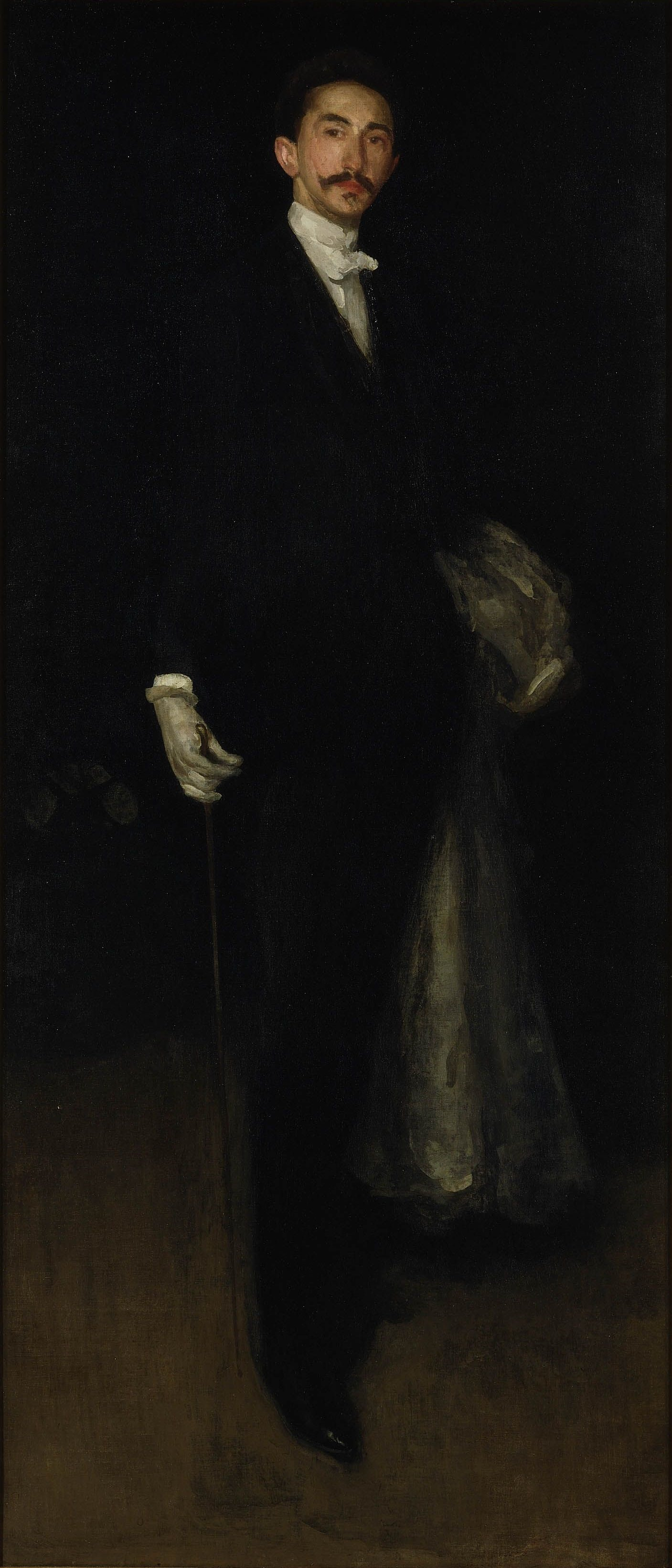 Portrait of Marie Joseph Robert Anatole, Comte de Montesquiou-Fezensac (1855-1921); Arrangement in Black and Gold